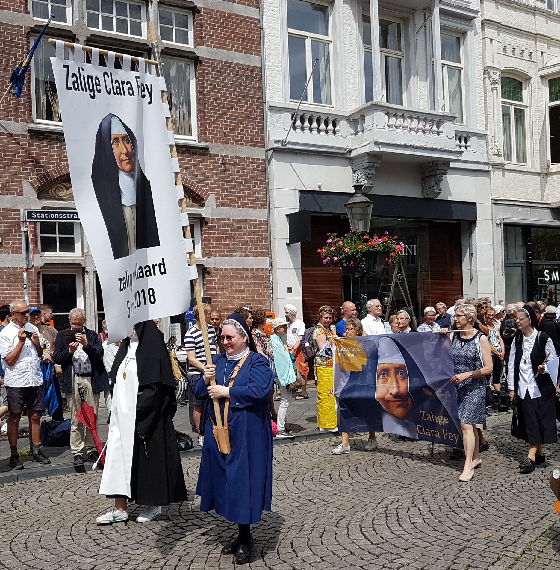 Participants in a historic religious procession during the 2018 Heiligdomsvaart (Relics Pilgrimage) in Maastricht, Netherlands. The history of this seven-yearly catholic pilgrimage goes back to the Middle Ages. The first 'modern' version took place in 1874. On both Sundays of the ten-day festival, a procession is held in which the main relics and other devotional objects are exhibited. This photo was taken in Stationsstraat during the (first) procession on Sunday 27 May 2018. This group of nuns is part of a delegation from the Sisters of the Poor Child Jesus. They draw special attention to the fact that the founder of their religious order, Clara Fey, was beatified by the Pope in May 2018.